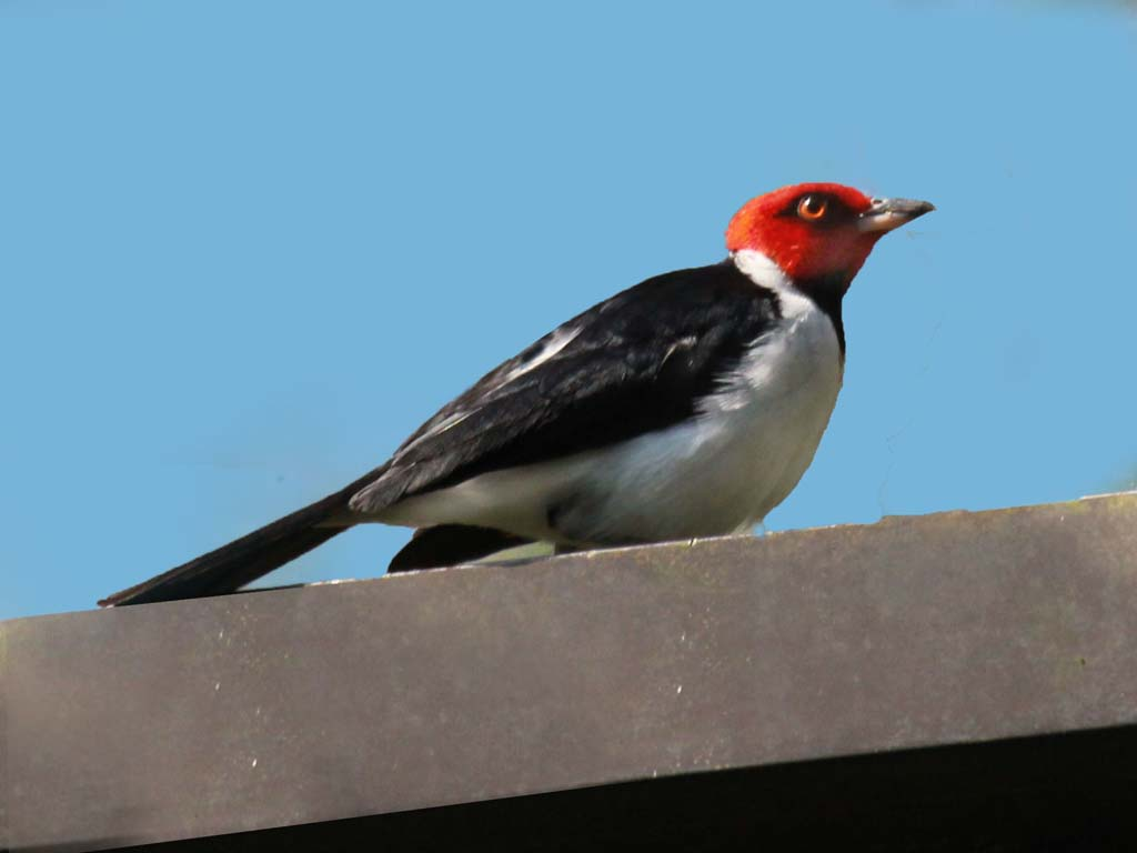 Red-capped Cardinal (Paroaria gularis) - North Carolina Zoo, North Carolina